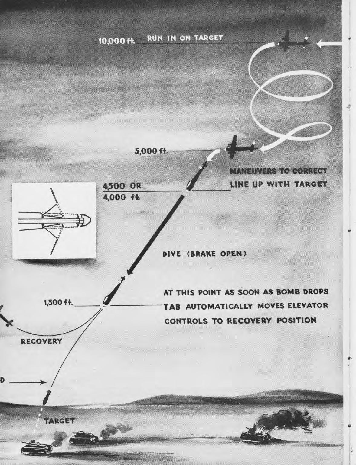 principle drawing of robot attack